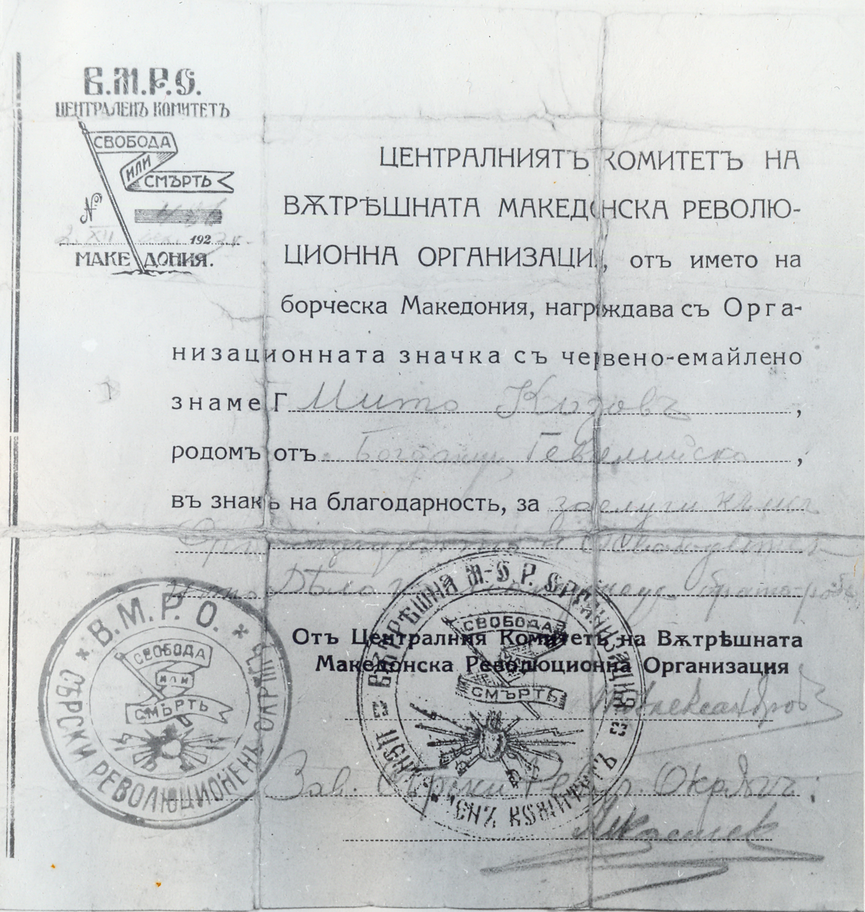 A letter for decoration - IMRO.